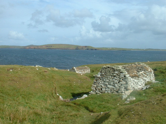 Ancient Water Mills at Huxter, Sandness, Shetland. The mills are a series of three, on the same burn. They date back to Norse times, with one still being in use in the 20th century. The island visible is Papa Stour